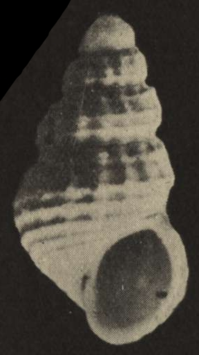 Black and white photo of apertural view of the paratype of Alvania gradatoides (synonyms: Alvinia gradatoides, Linemera gradatoides.